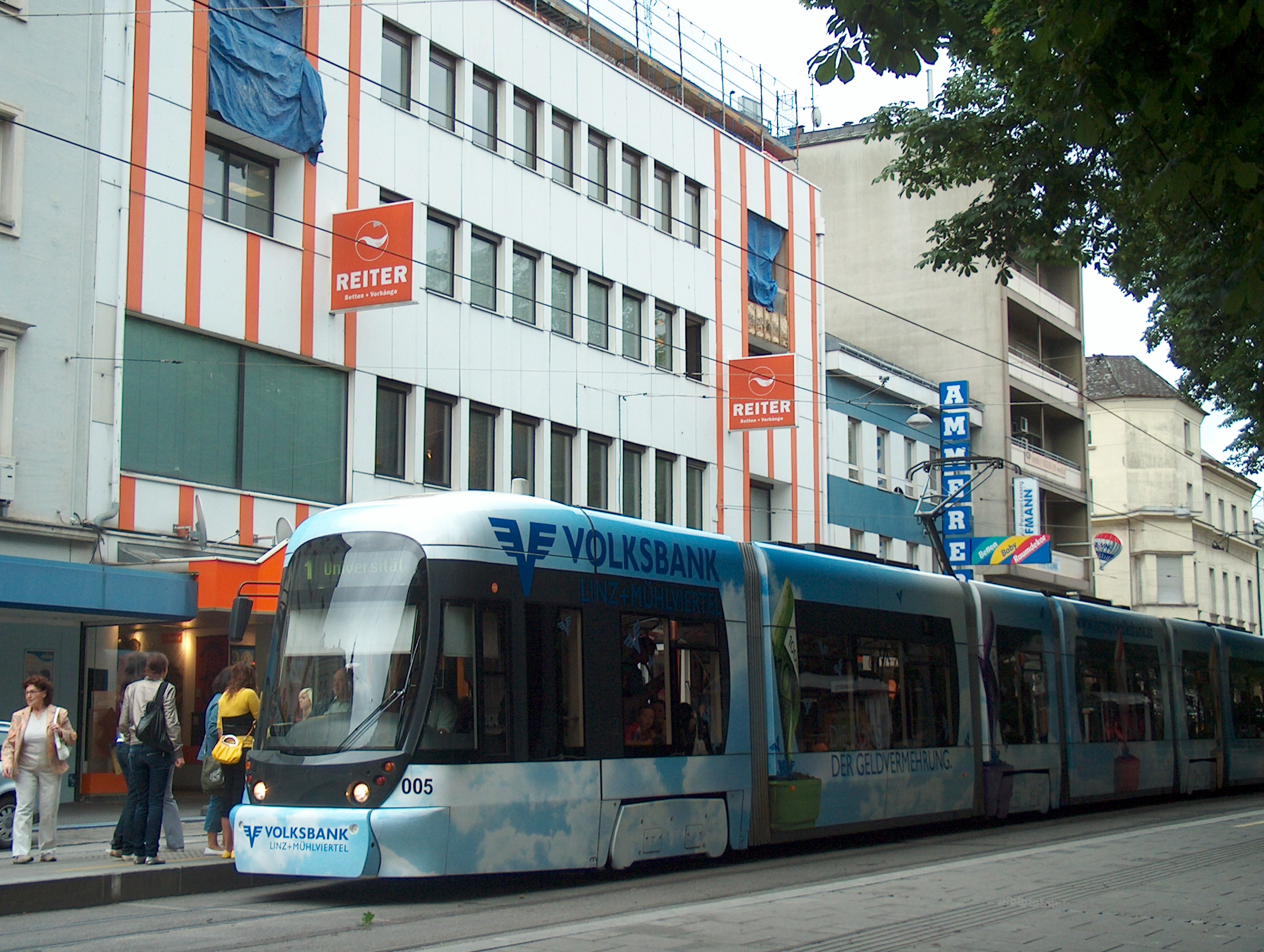 A Linz Streetcar with advertisements of the Volksbank. The Streetcar was seriosly damaged in an accident on 9th Of Jannuary 2009.